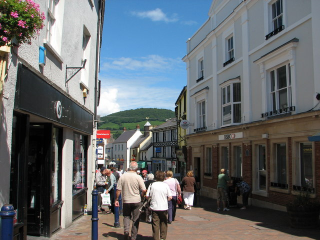 Abergavenny - Frogmore Street where it joins High Street